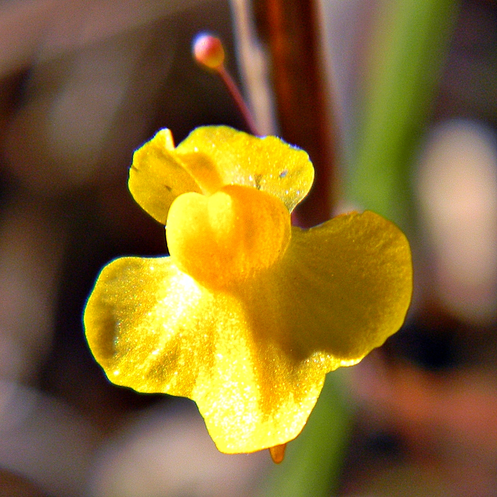 A little Bladderwort (Utricularia subulata) These are REALLY tiny, about 5mm across, and they are relatively common in the moist pine flatwoods. Jonathan Dickinson State Park, Martin County, Florida December 2010